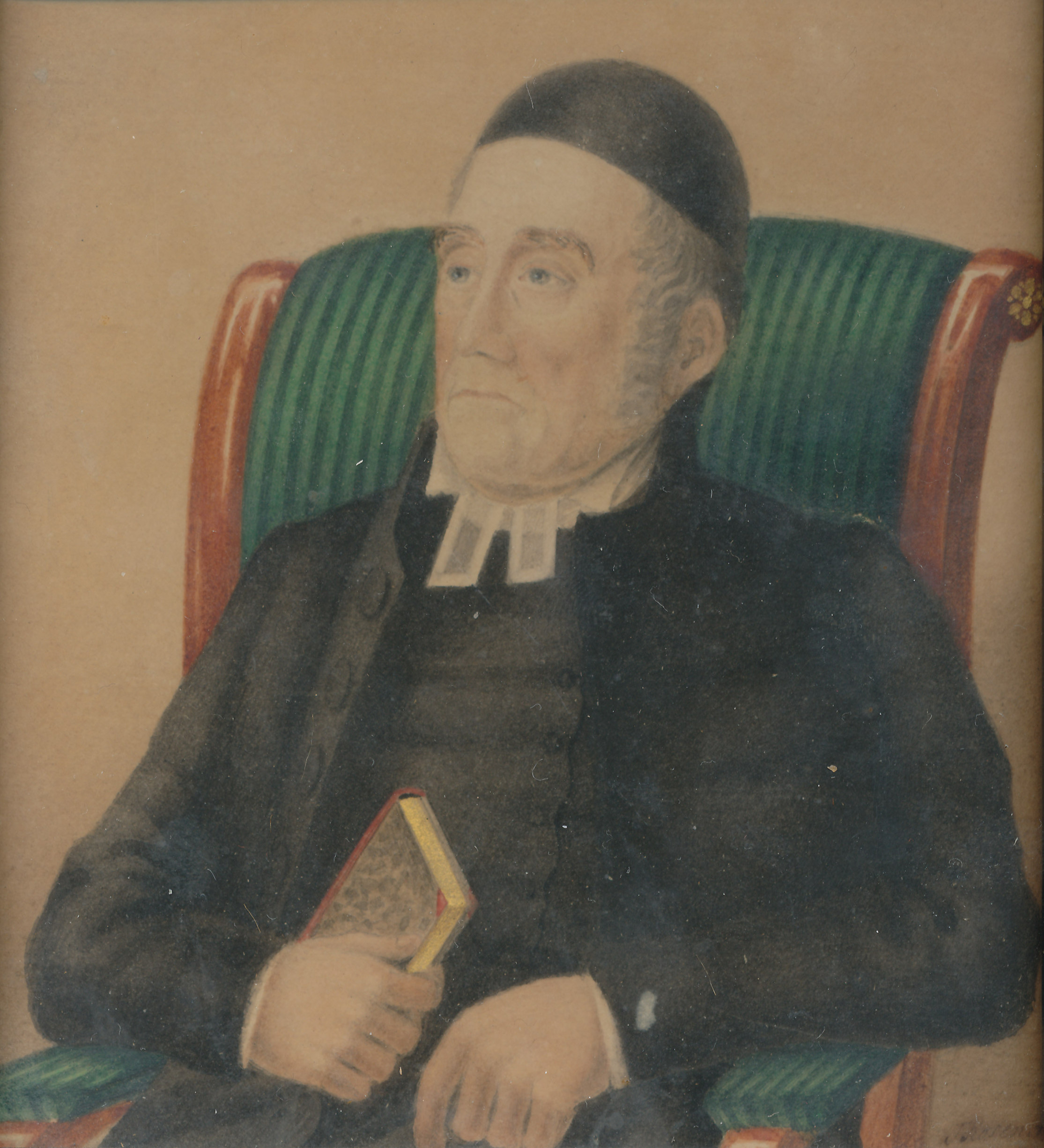 Sven Lidman, 1757-1823